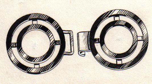 line art drawing of a clasp.